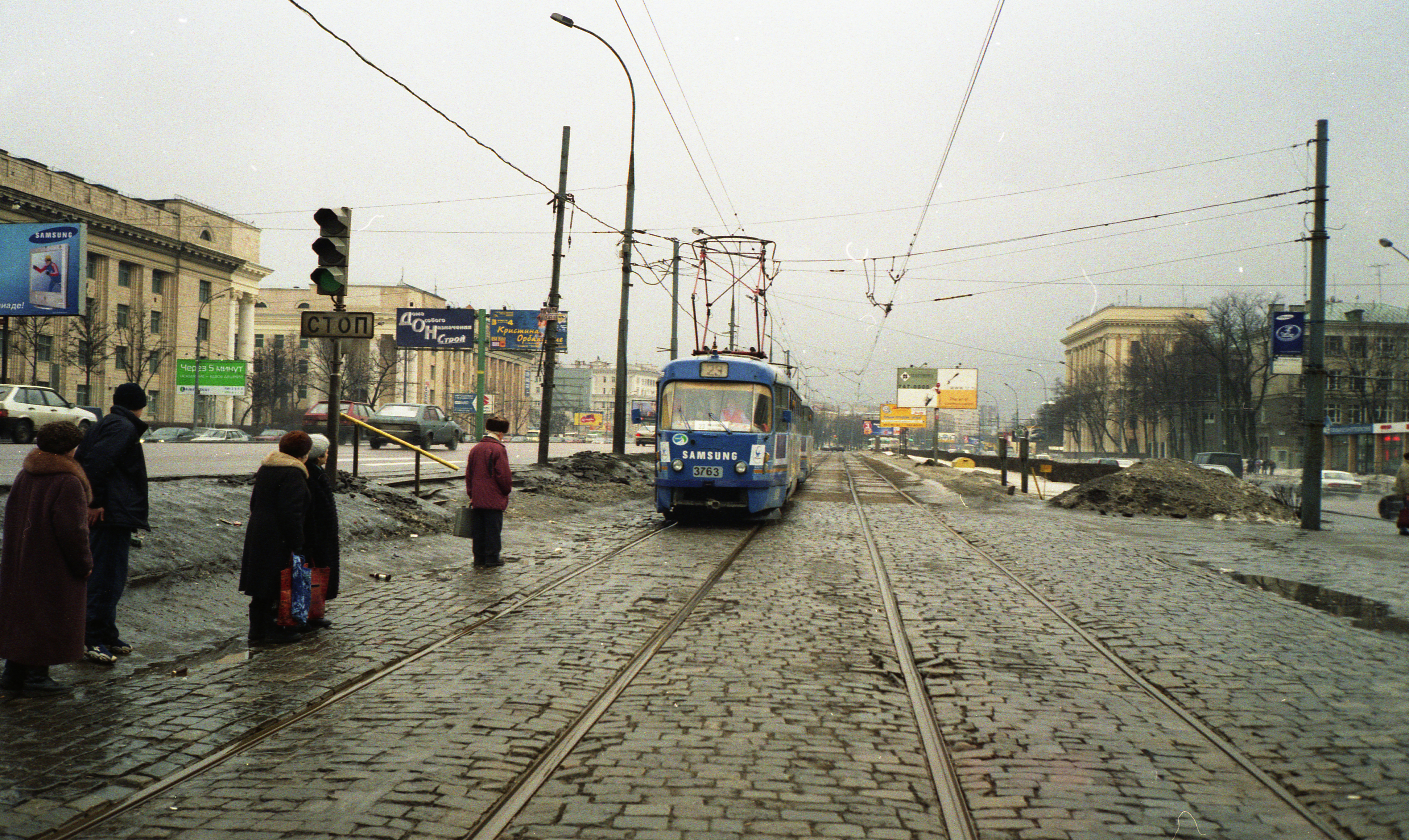 Moscow. Line closed in 2004. Olympus mju-II camera, Konica VX200